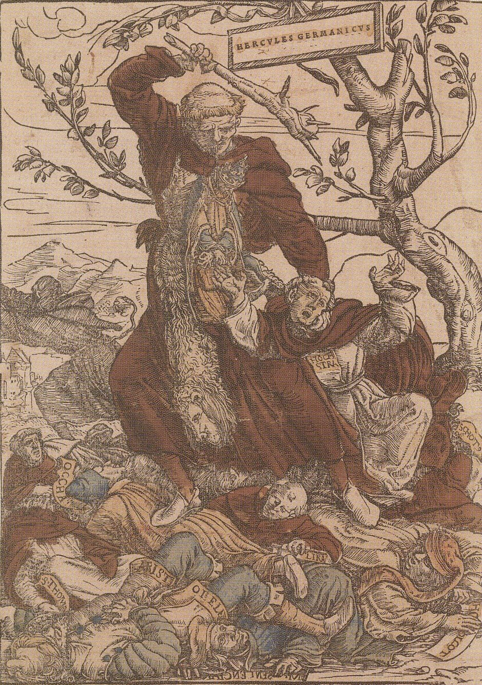 Luther as Hercules Germanicus. Woodcut, Zentralbibliothek, Zürich. Basel, where Hans Holbein worked and had his studio, was a leading centre for disseminating Reformation ideas, owing to the excellence and freedom of its presses. Most of the reformer Martin Luther's books were published there. At the time Holbein designed this print, he was working for both traditional patrons and for reformers. Comparing Luther to Hercules, the slayer of the many-headed hydra, he shows him slaying churchmen.